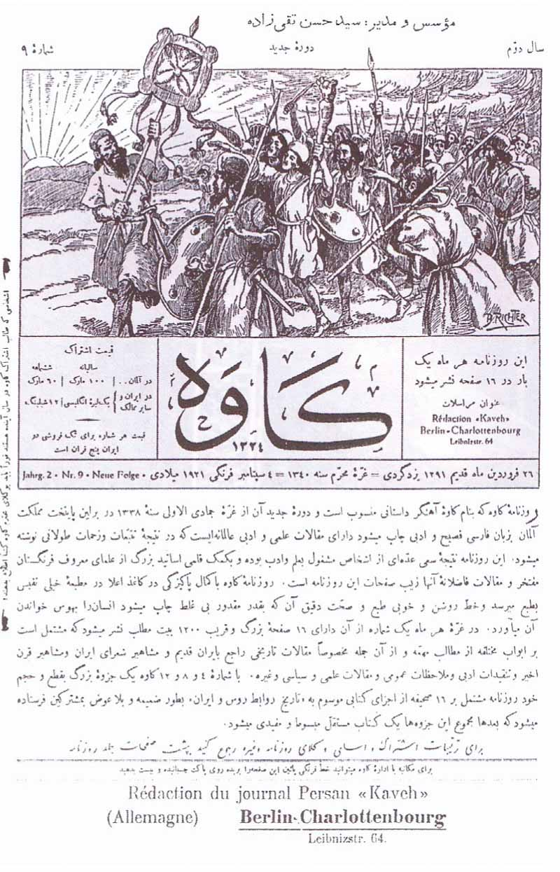 Kaveh Persian magazine, No. 9, 2nd year, Sept. 1921, Berlin.